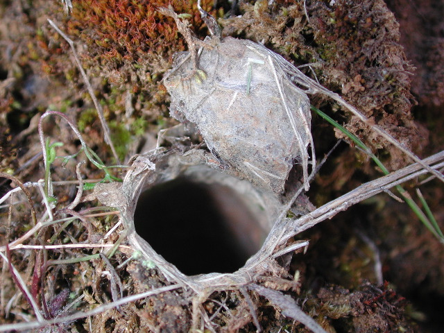 Cyrtaucheniidae species trapdoor, opened, northern California.